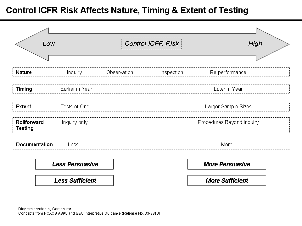 Evidence Sufficiency Diagram for SOX TDRA